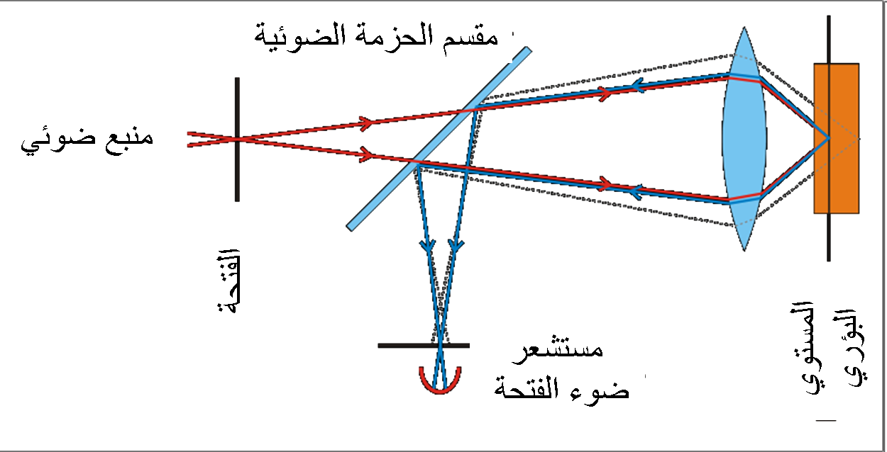 Confocal Microscope in Arabic صورة آلية عمل المجهر البؤري